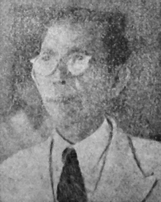 Ki Hadjar Dewantara in 1952